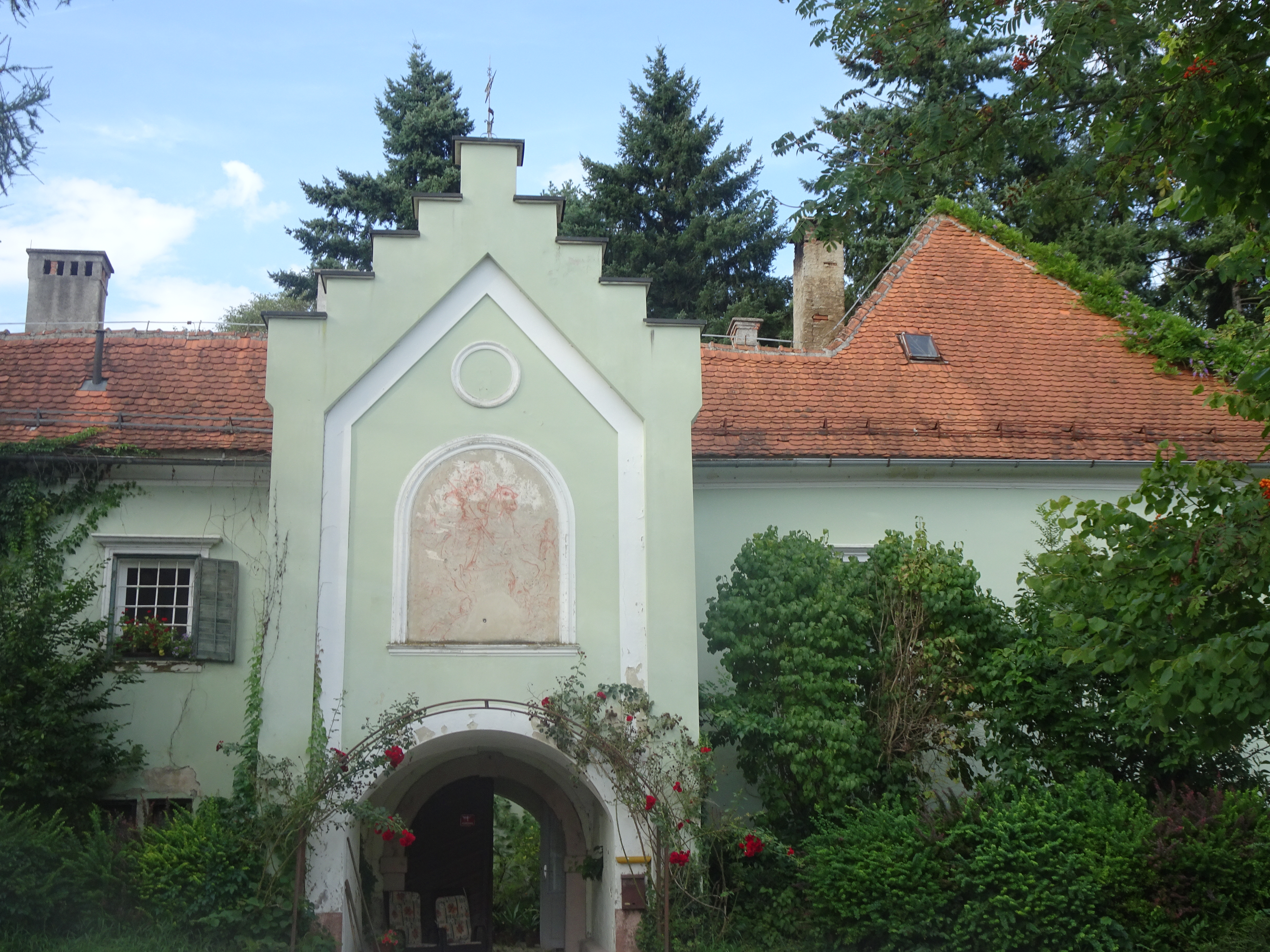 Pragersko Mansion